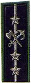 Insignia officials of the Ministry of Railways of the Russian Empire. Rank X